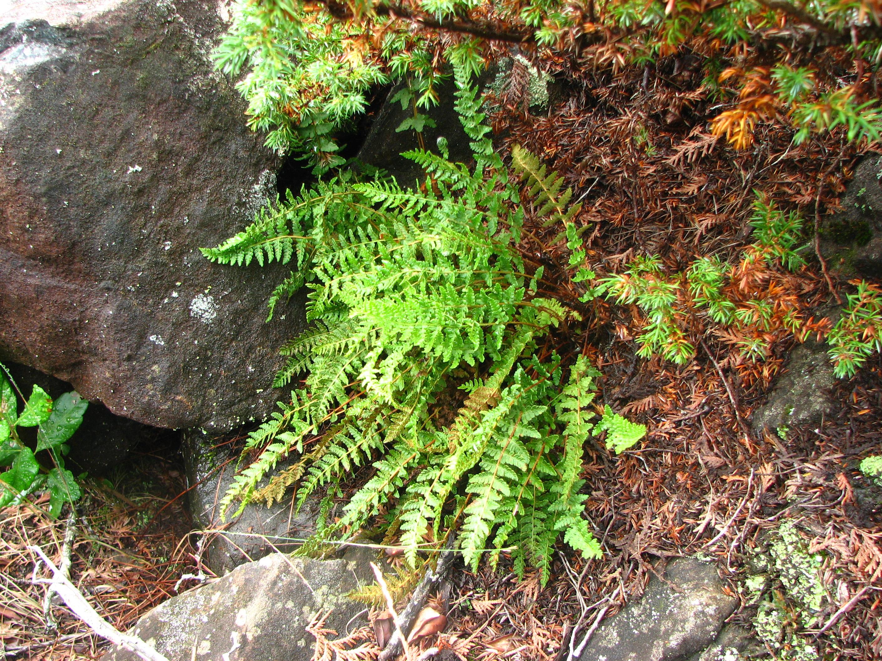 Woodsia ilvensis, rusty woodsia, growing on a serpentine substrate at Pine Hill Quarry, Deer Isle, Maine.